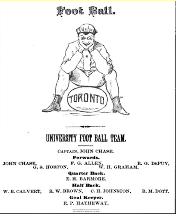 Profile of the 1880 Michigan Wolverines football team from The Palladium Captioned As { }